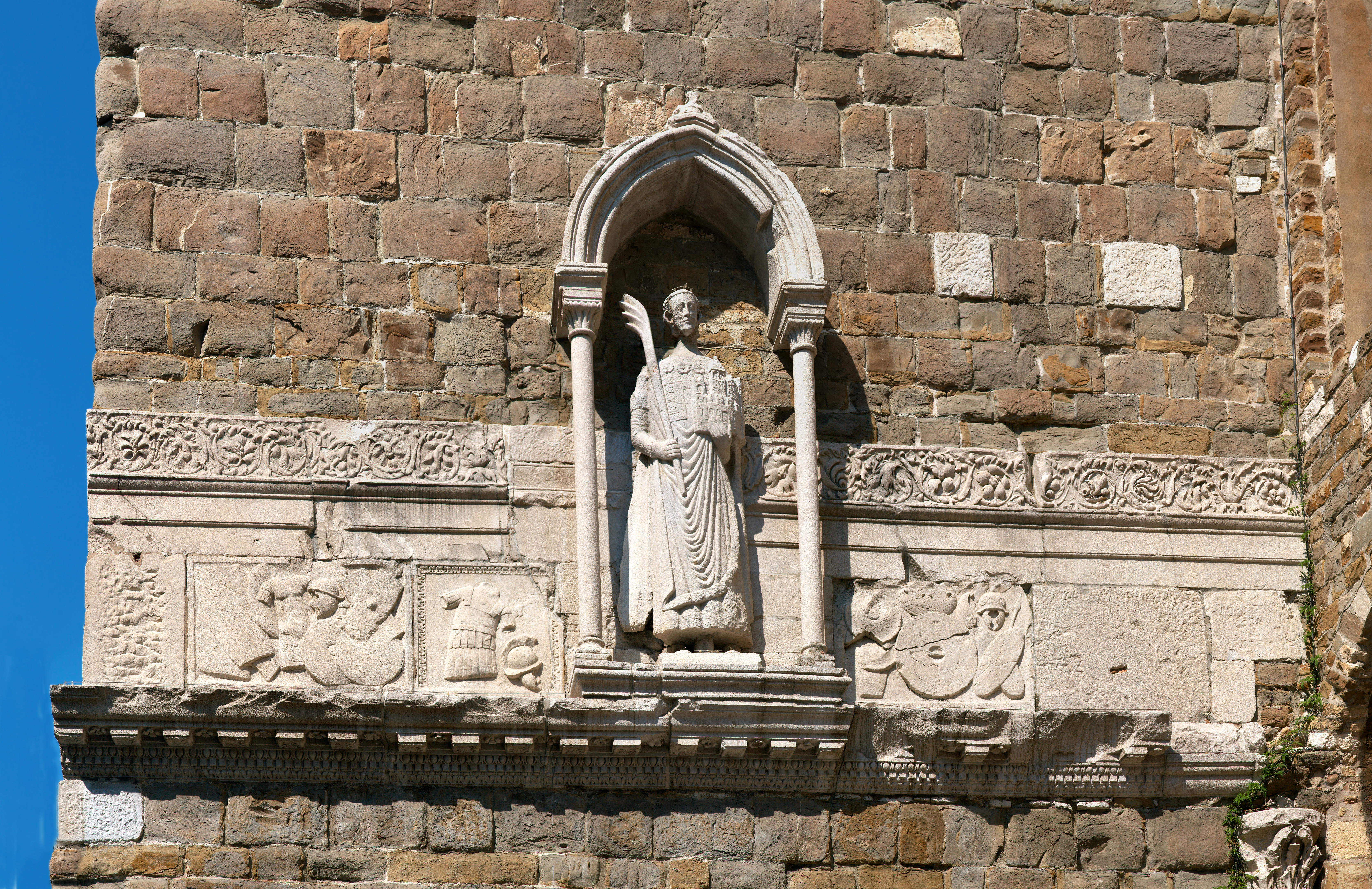 Cattedrale di San Giusto in Trieste, Spolia on the tower and statue of San Giusto